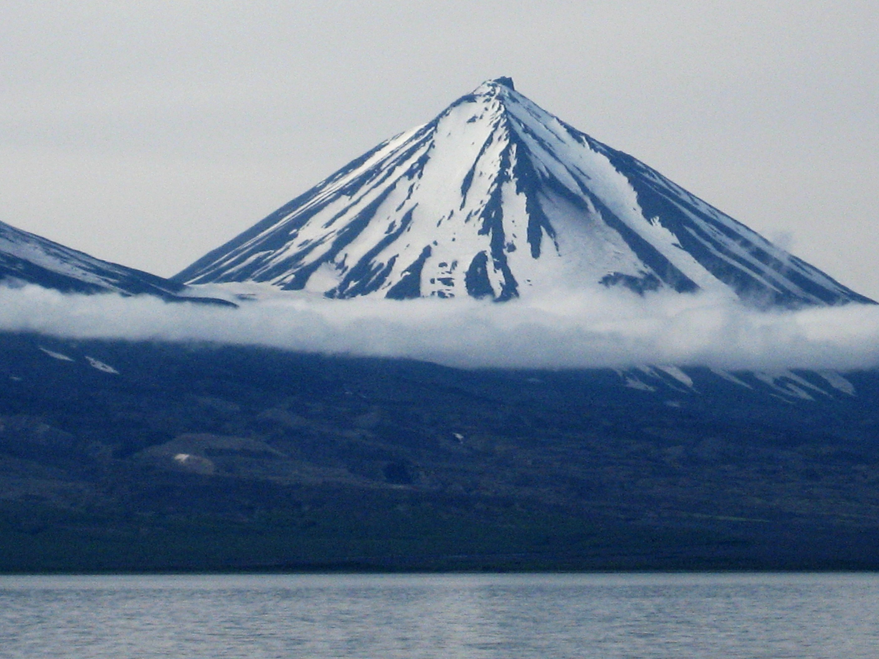 Pavlof Sister Volcano as seen from the Cold Bay area. Alaska Peninsula.